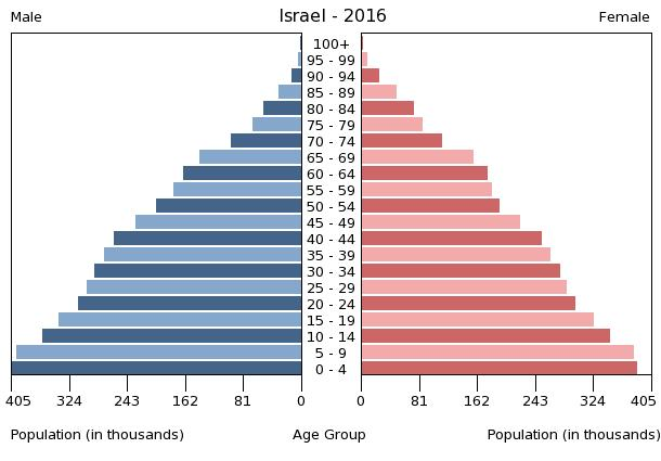 The population pyramid of Israel illustrates the age and sex structure of population and may provide insights about political and social stability, as well as economic development. The population is distributed along the horizontal axis, with males shown on the left and females on the right. The male and female populations are broken down into 5-year age groups represented as horizontal bars along the vertical axis, with the youngest age groups at the bottom and the oldest at the top. The shape of the population pyramid gradually evolves over time based on fertility, mortality, and international migration trends.